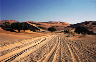 Picture of the sand track leading to Sossusvlei, in the Namib Desert, Namibia.